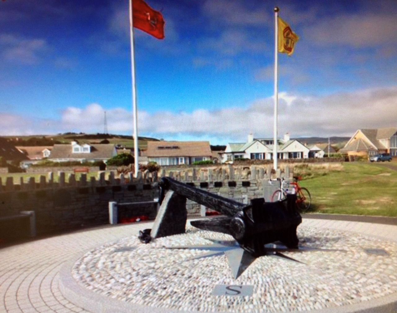 Memorial at Kallow Point, Porst St Mary, Commemorating Mona's Queen, Fenella and King Orry.